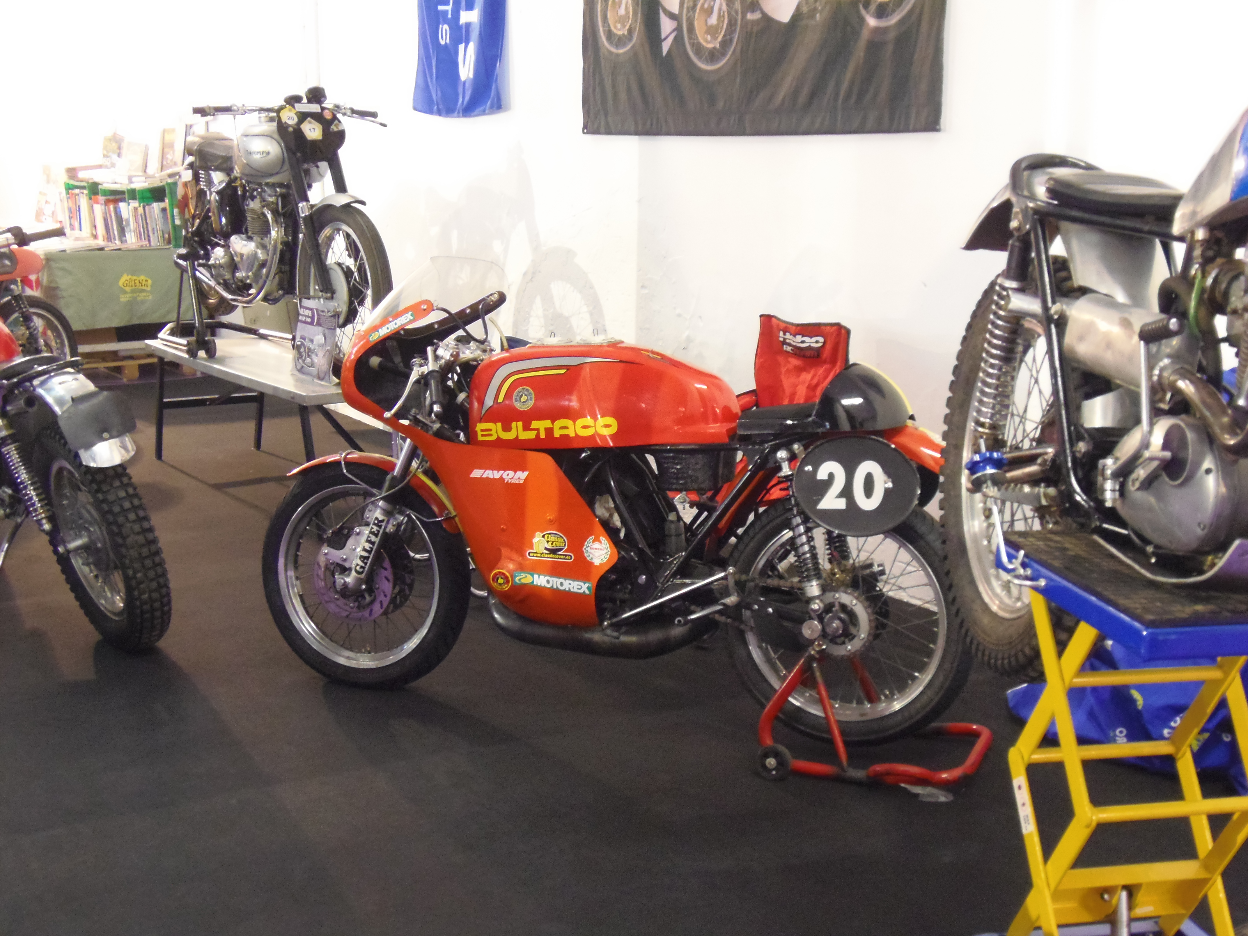 Bultaco 360, endurance motorcycle, circa 1972.